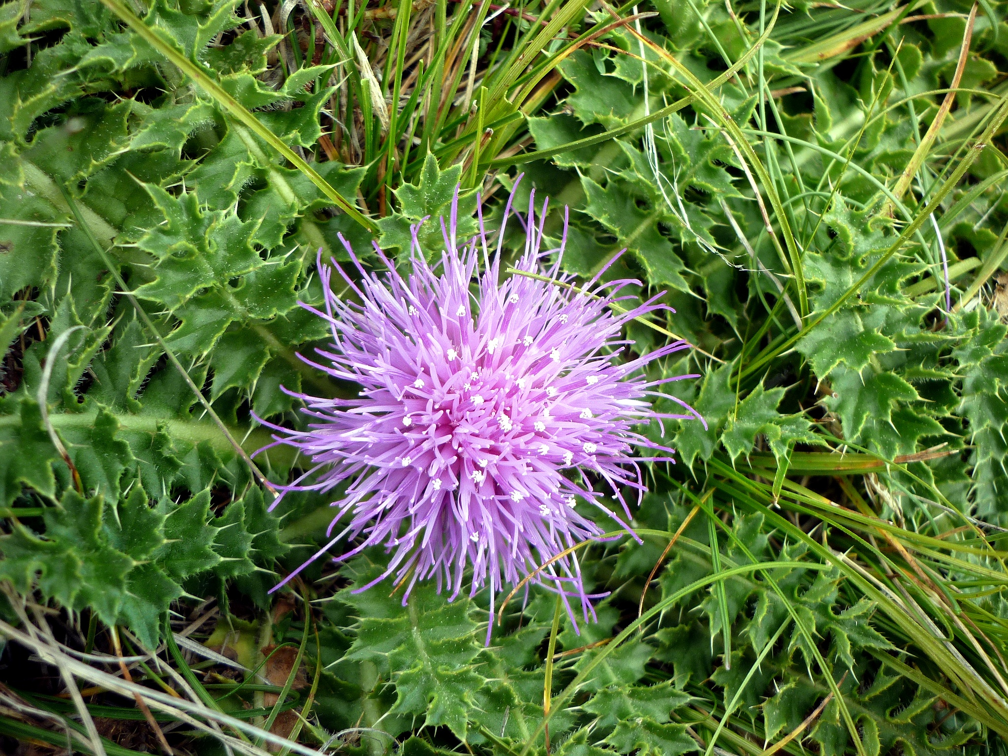 Cirsium acaule. In la Bòfia, Guixers (Solsonès - Catalunya). To 2.0100 m. altitude